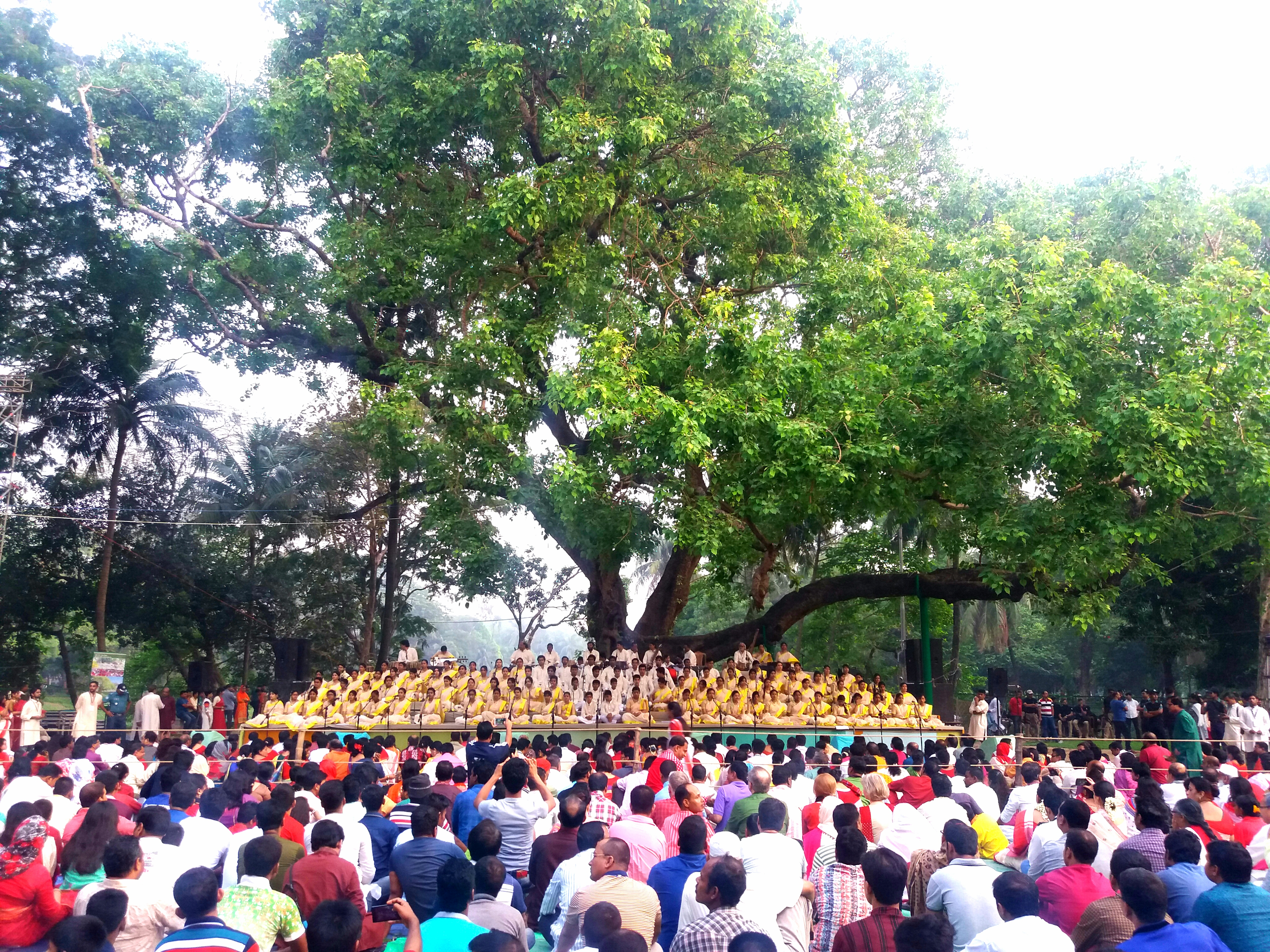 Chhayanat, a leading cultural organisation of Bangladesh is celebrating new Bangla year 1424. It is 50th celebration of welcoming new bangla year of this organisation. This event took place beneath a sacred fig tree in Ramna Park, Dhaka